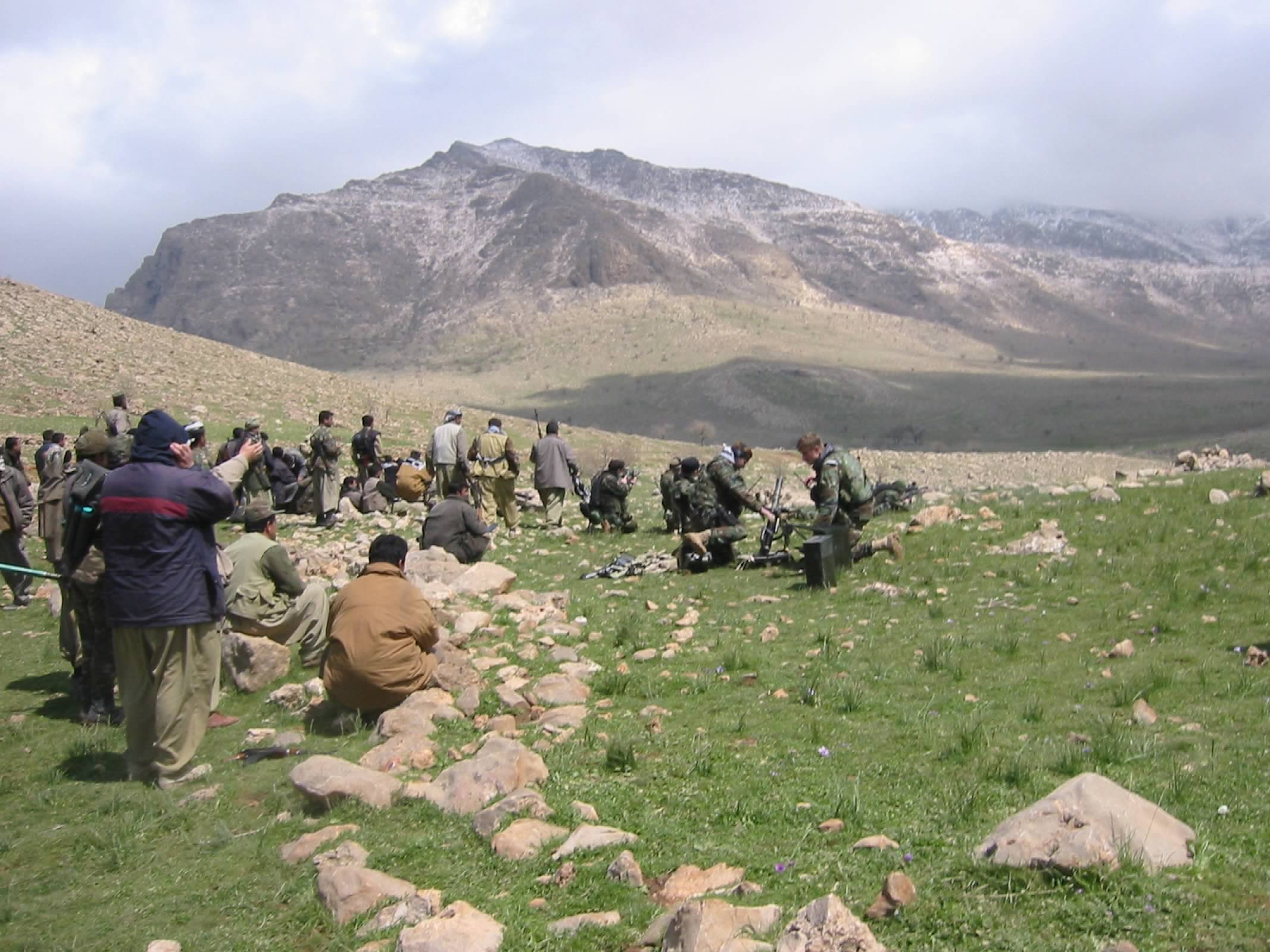 Fighting into mountains against Ansar al-Islam